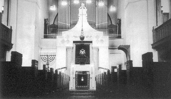 Inside of the synagogue of Bingen-am-Rhein, built in 1905, destroyed by the nazis in 1938.